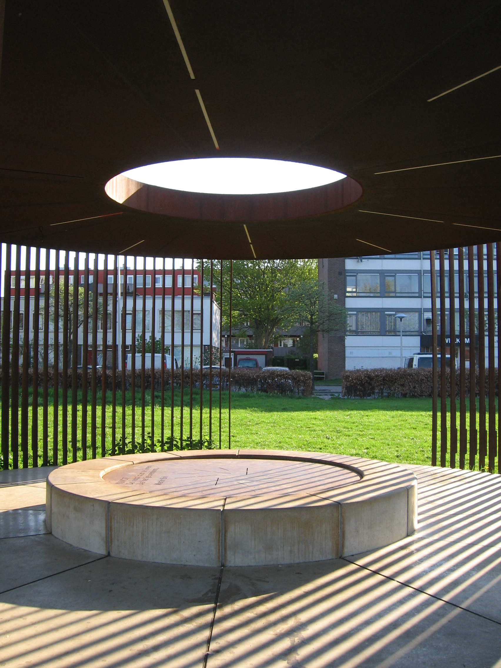 Martin Bril Pavilion, 2015, designed by Carve NL and Karel Martens, Kanaleneiland Utrecht